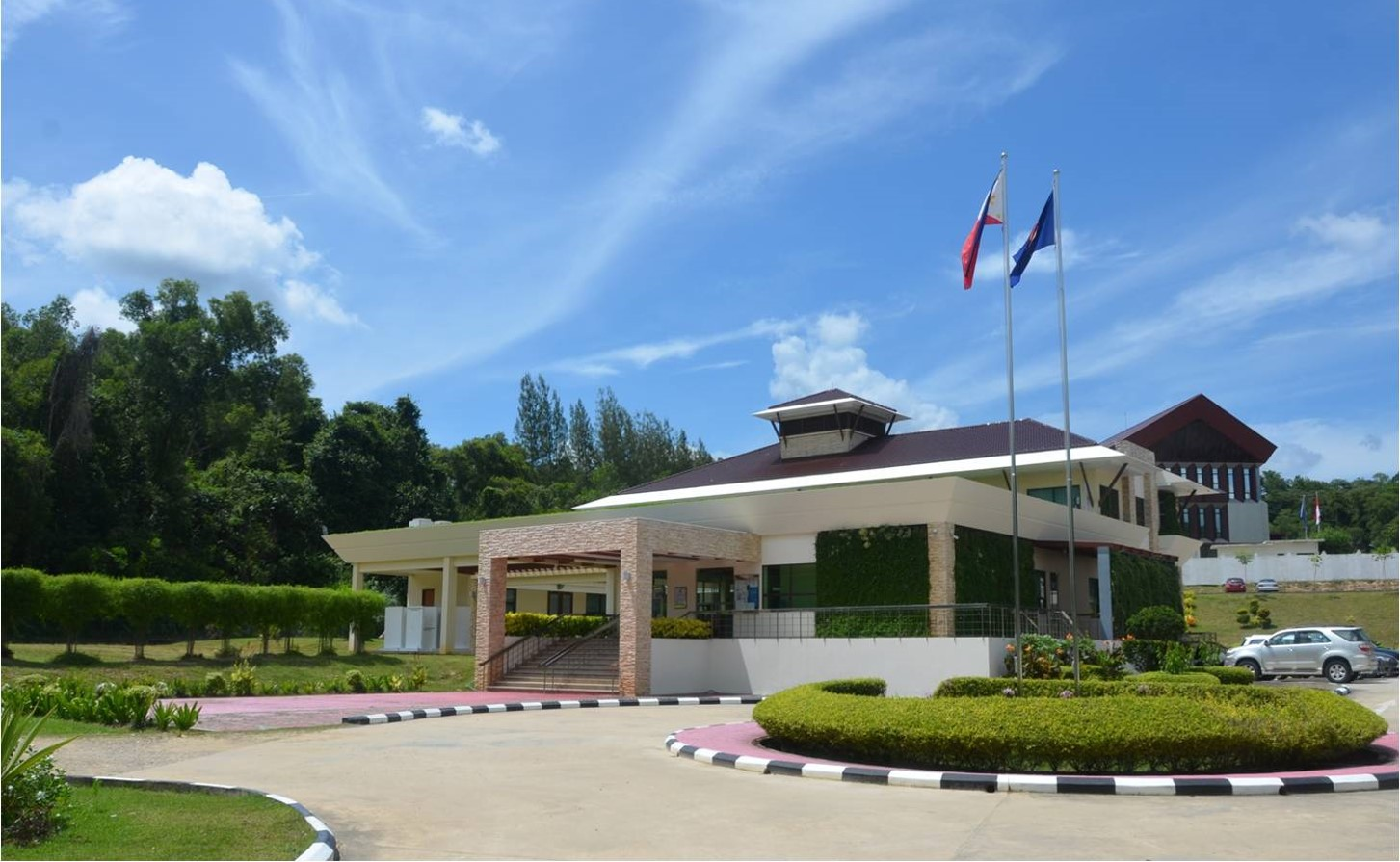 Exterior of the Embassy of the Philippines in Bandar Seri Begawan, Brunei. Tagalog: Labas ng Embahada ng Pilipinas sa Bandar Seri Begawan, Brunei.